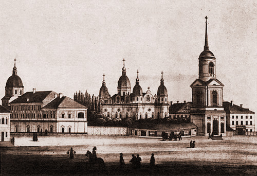 The Brotherhood (Bratstvo) compound in Kiev